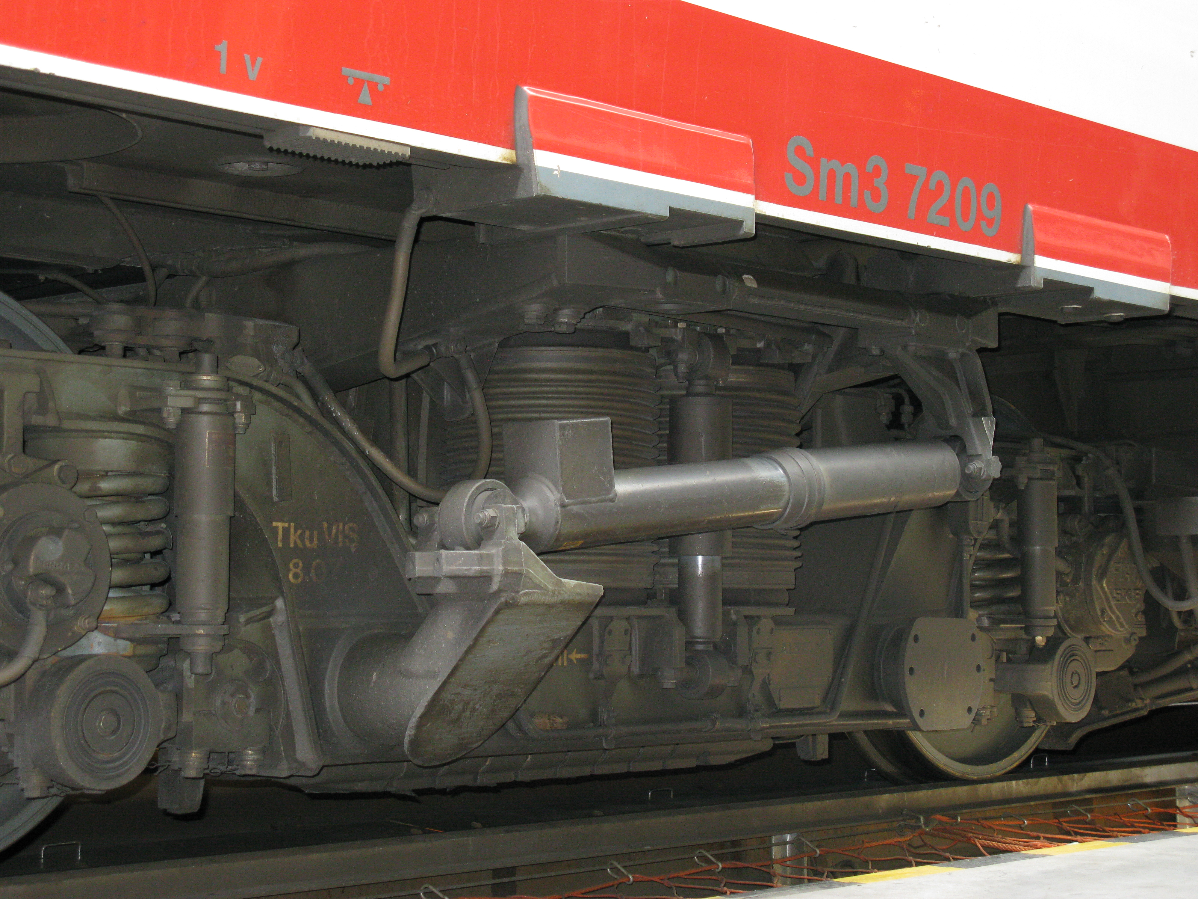 The bogey of a VR Class Sm3 Pendolino train, showing the tilting mechanism.